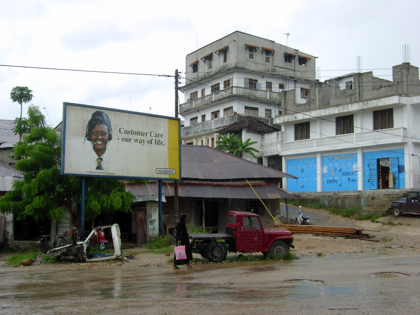 A rainy day in central Chake Chake, Pemba Island, Tanzania